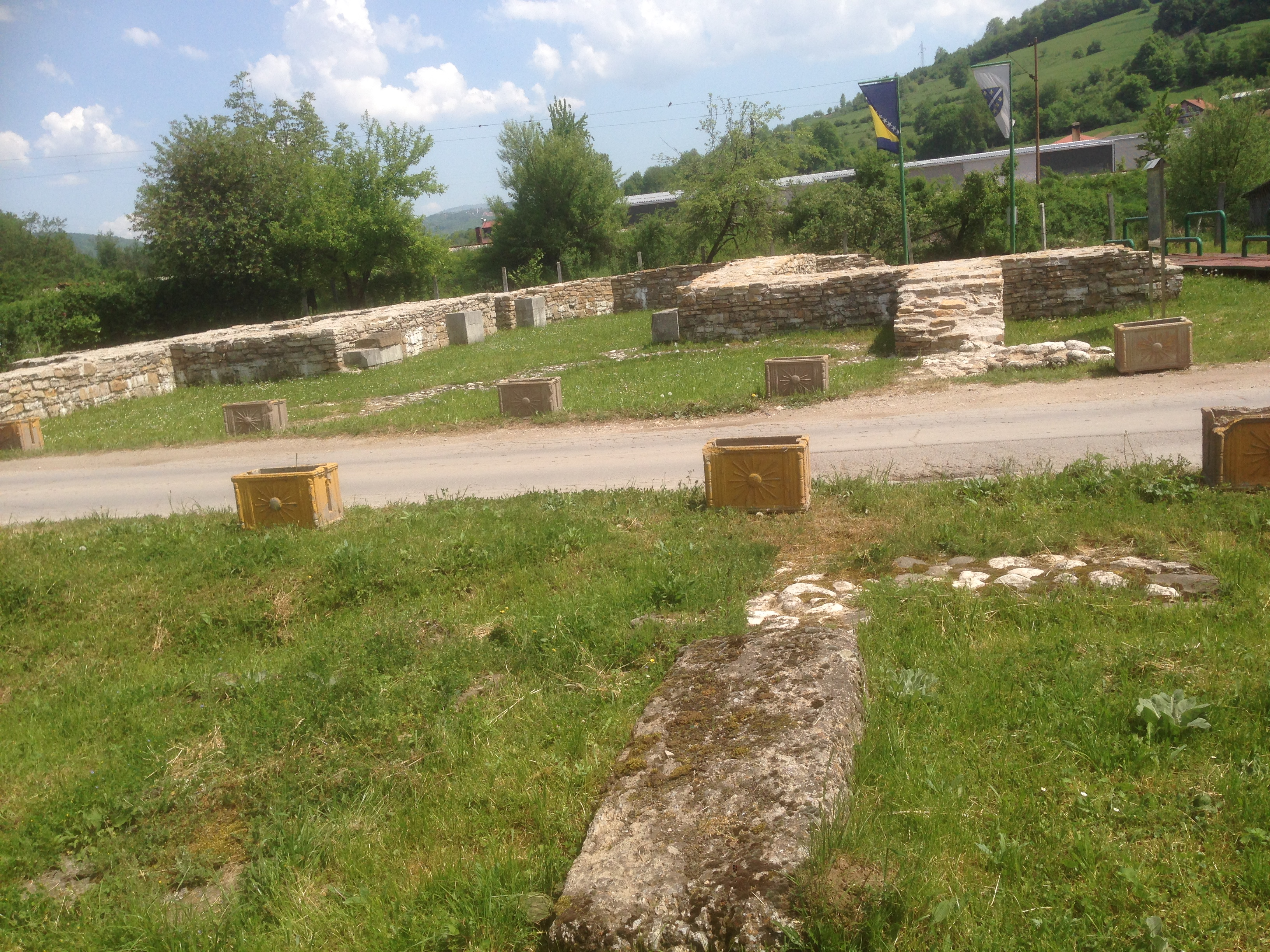 Bosnien kings place 2